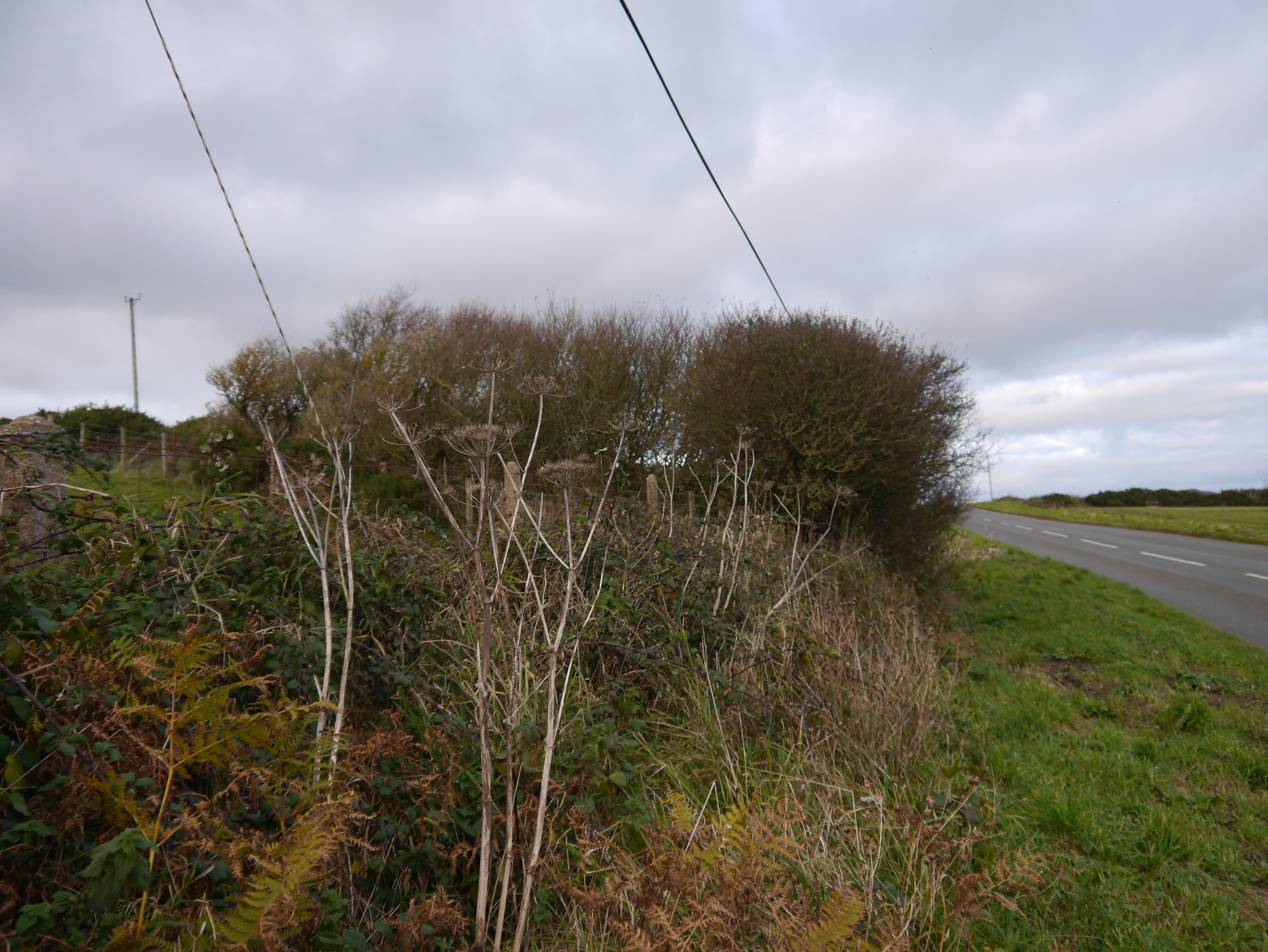 Y twll gravel ger y giât lôn, Moelfre, Aberdaron, 2012